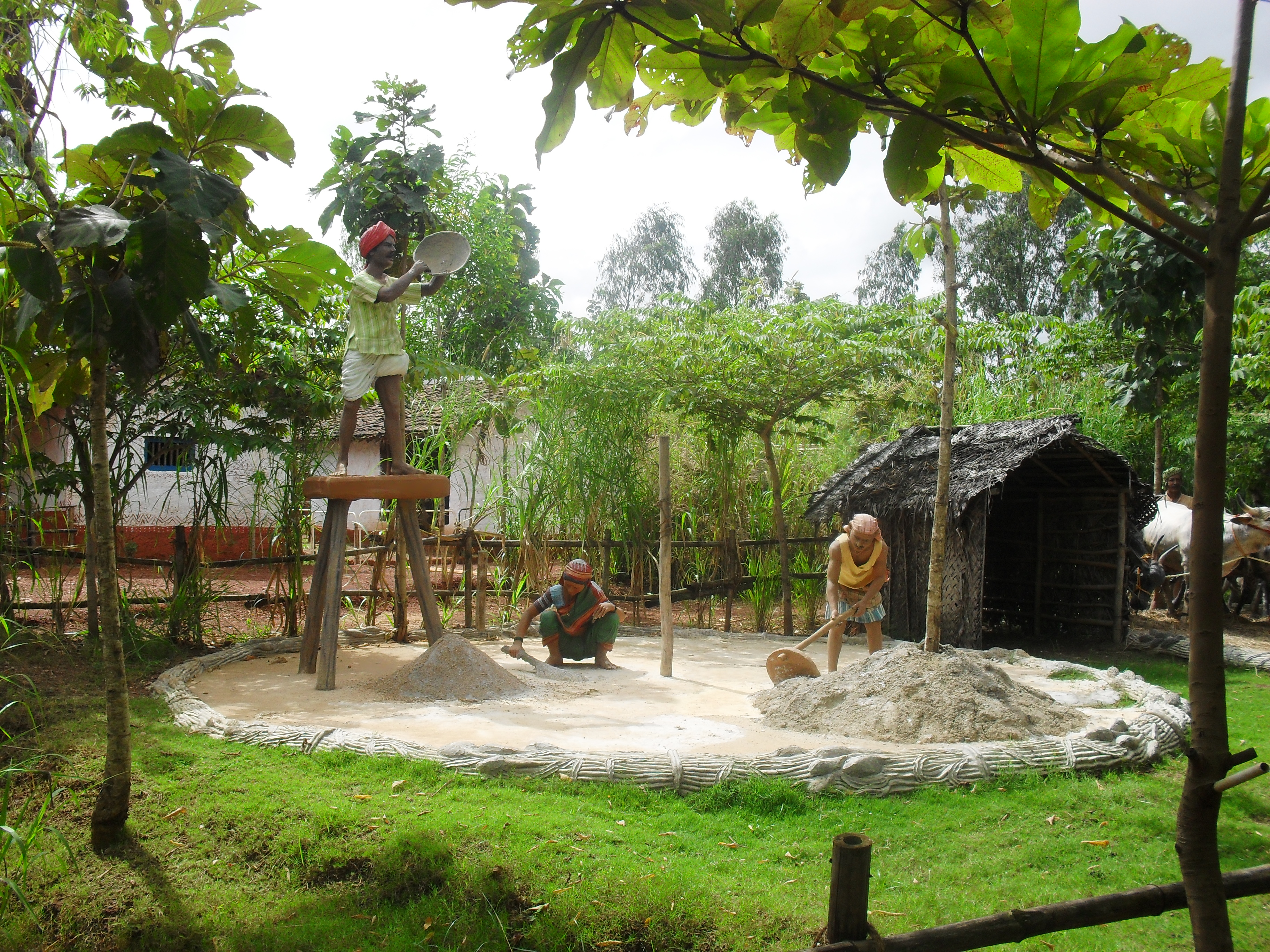 Typical agricultural methods used during ancient times for separating the husk from the grains